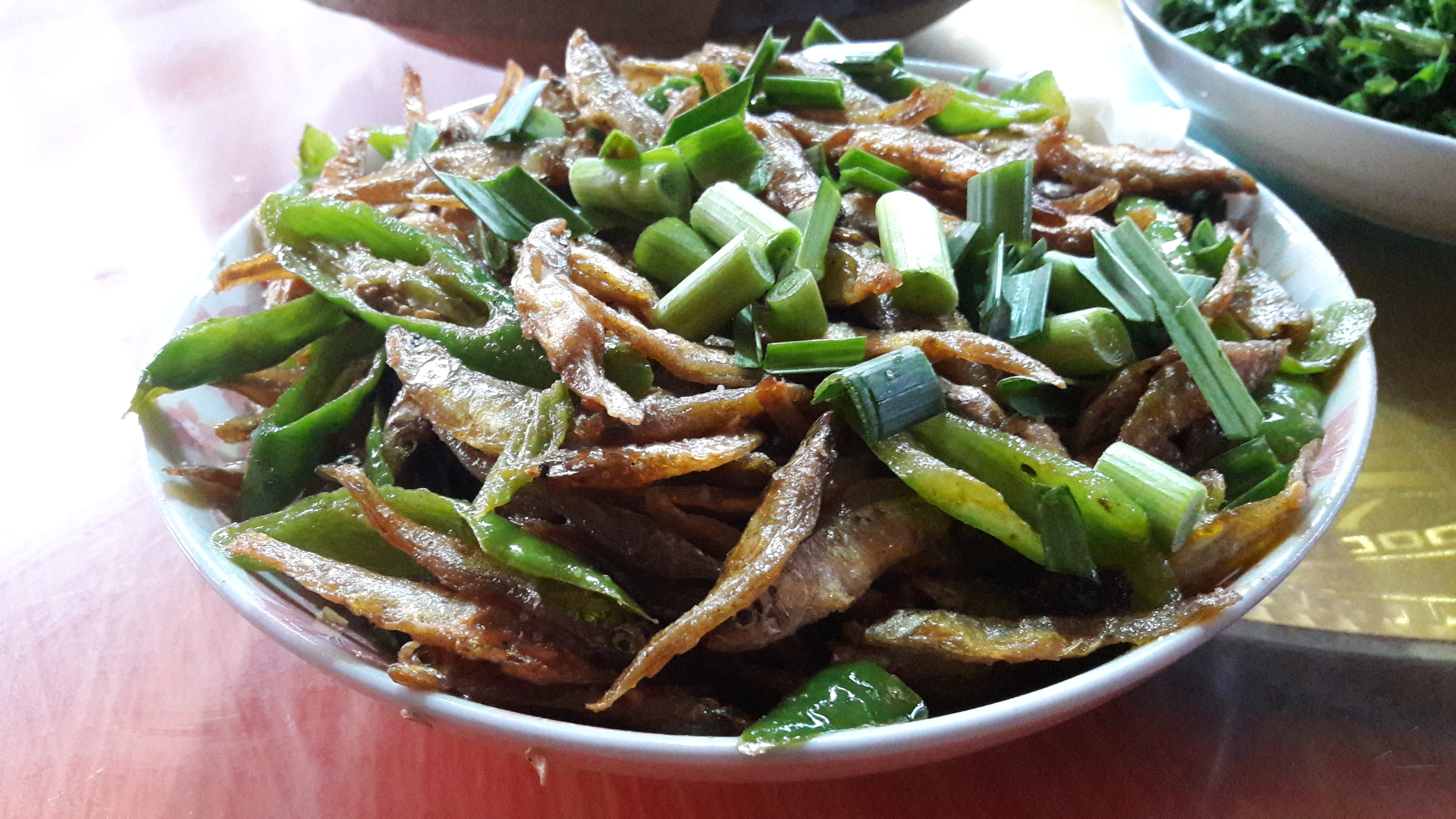 Fish plate made by friends of Tujia minority in a little hamlet of Guzhang xian, in Hunan province.